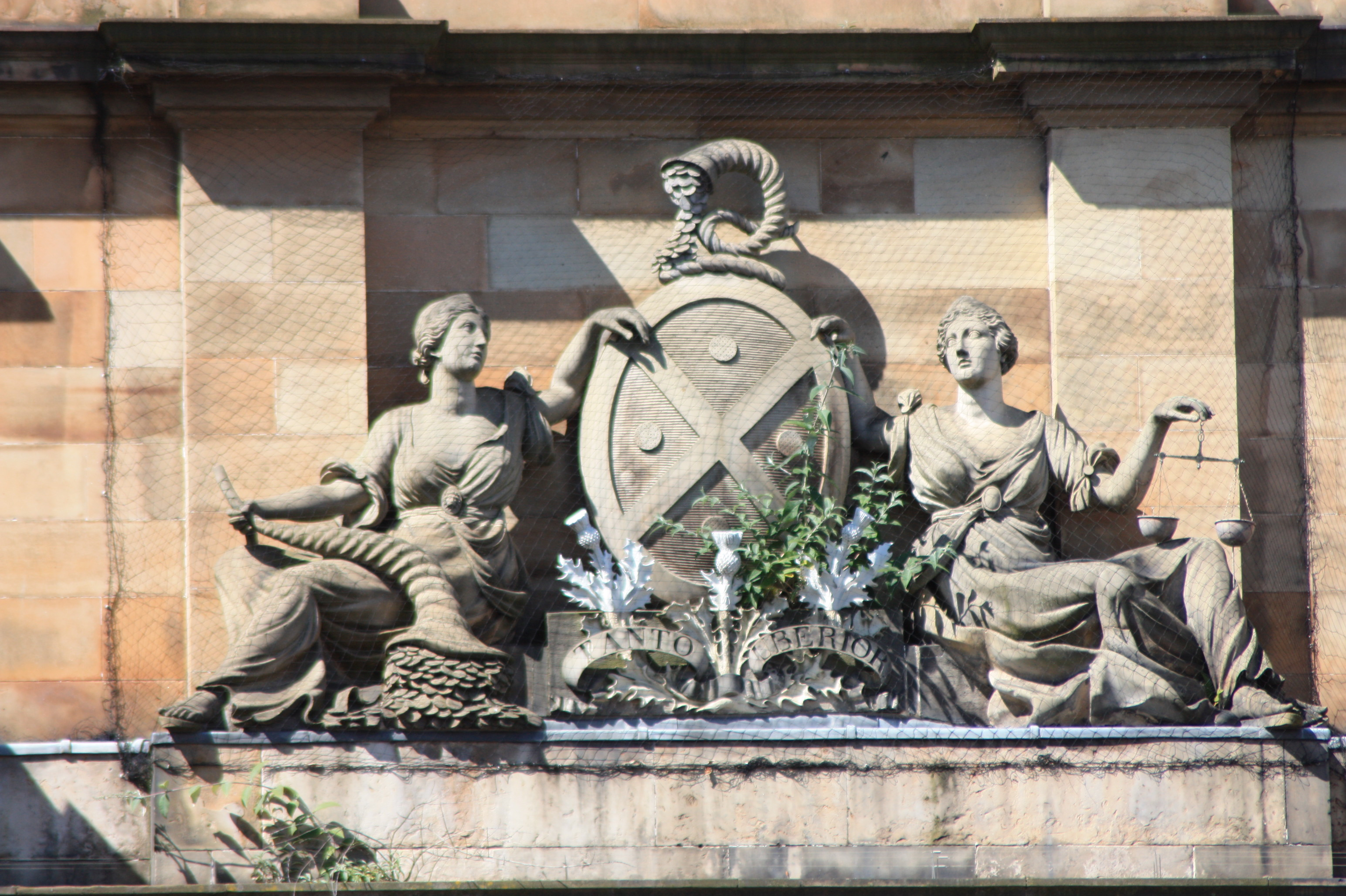 Bank of Scotland crest, Head Office, The Mound, Edinburgh